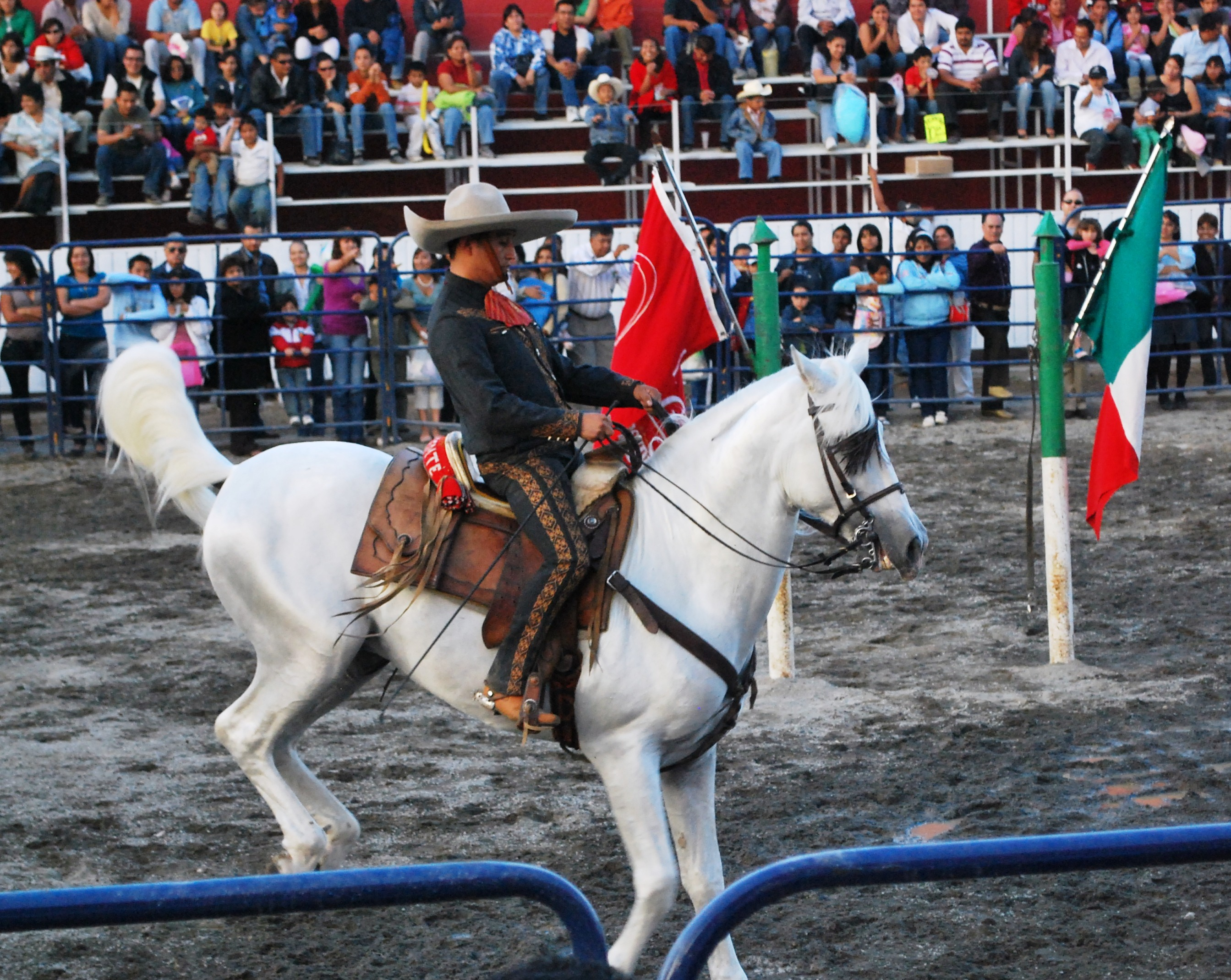 Rider and horse at the charro horse show of the Feria de Hidalgo in Pachuca, Hidalgo